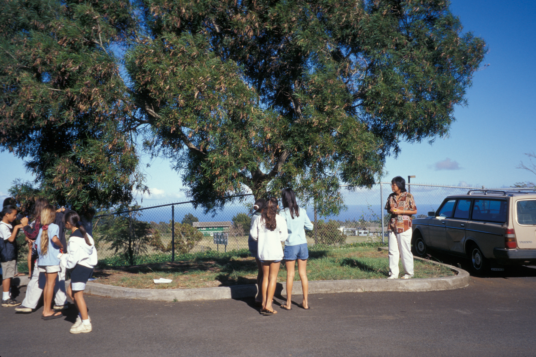 Acacia confusa (koa bug class with Kalama School). Location: Maui, Makawao